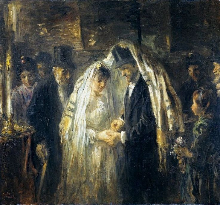 Een Joodse bruiloft